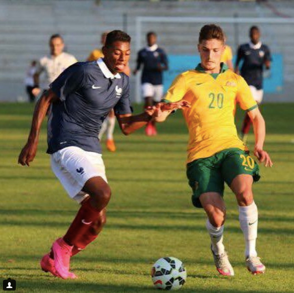 Fotakopoulos (left) and Reine-Adélaïde (right) contesting for the ball, Australia V France.